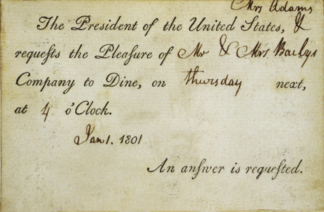 An early White House invitation with portions preprinted and a portion completed by First Lady Abigail Adams